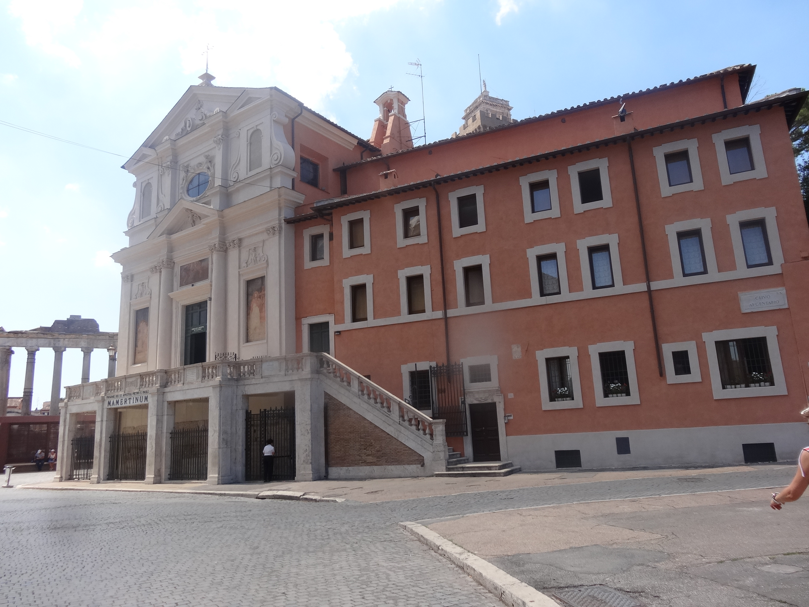 Mamertinum i San Giuseppe dei Falegnami (Rome)